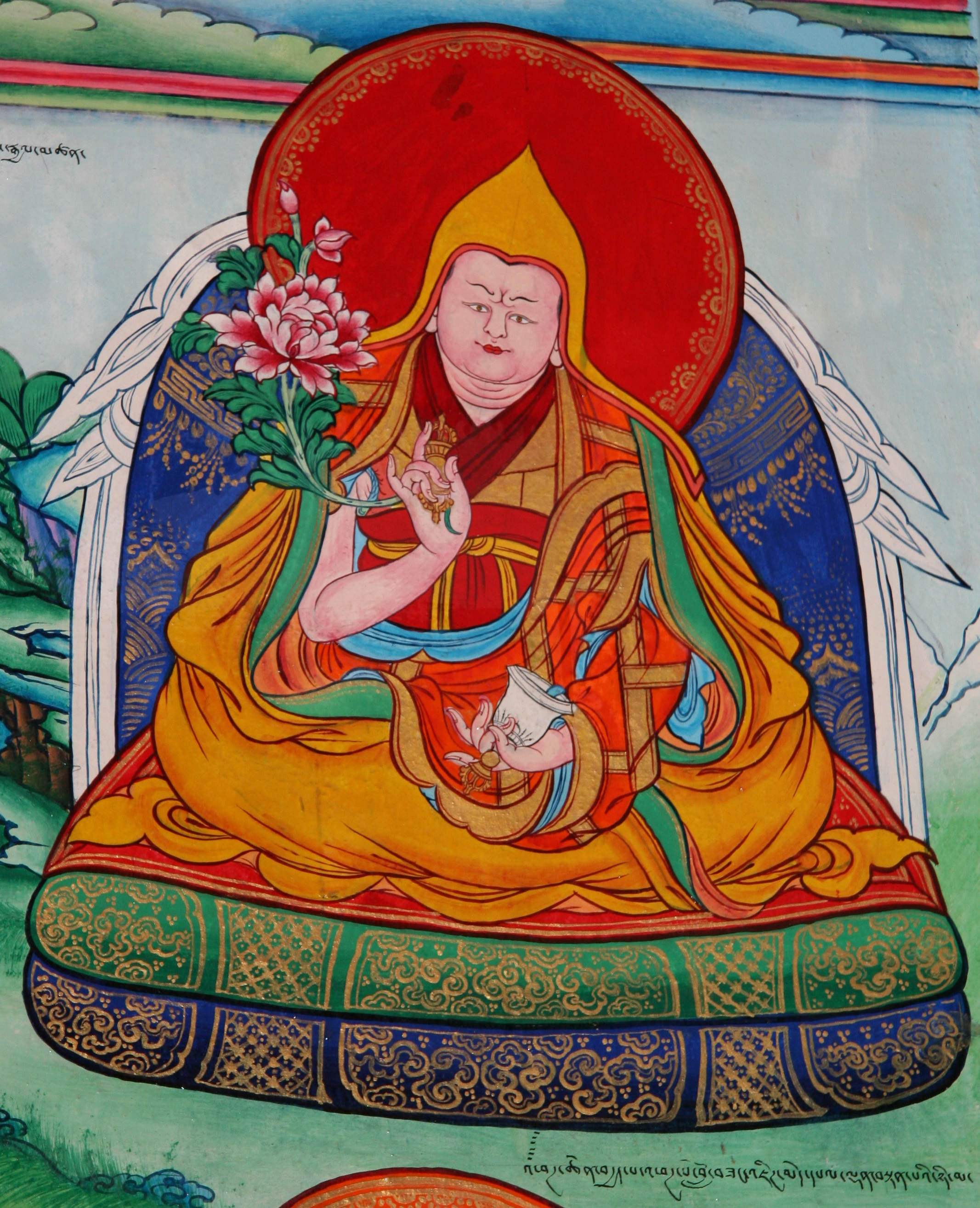 The Eighth Pakpa Lha, Lobzang Jigme Pelden Tenpai Nyima b.1795 - d.1847